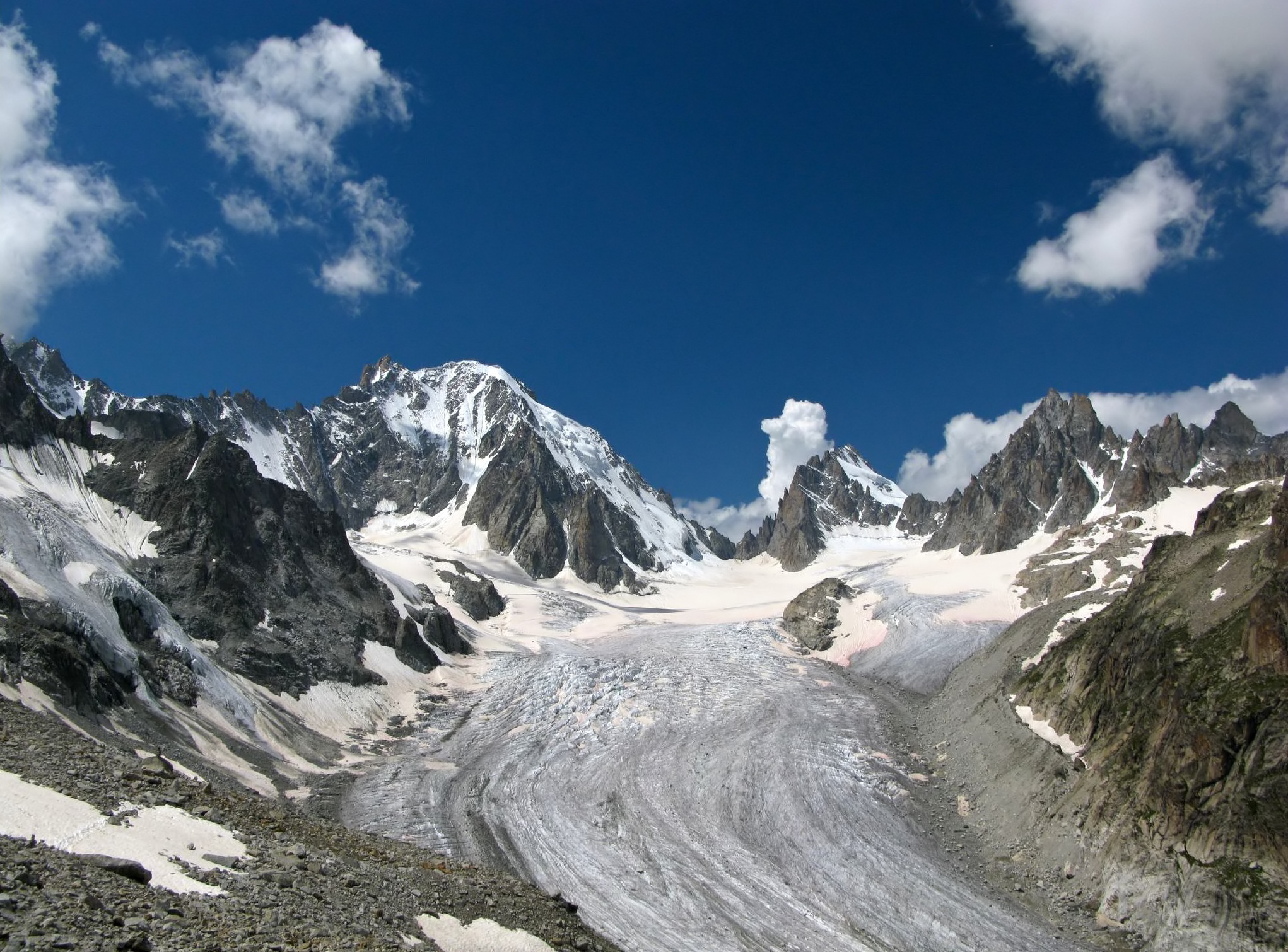 Saleina glacier and Aiguille d'Argentière. Picture taken in Switzerland.